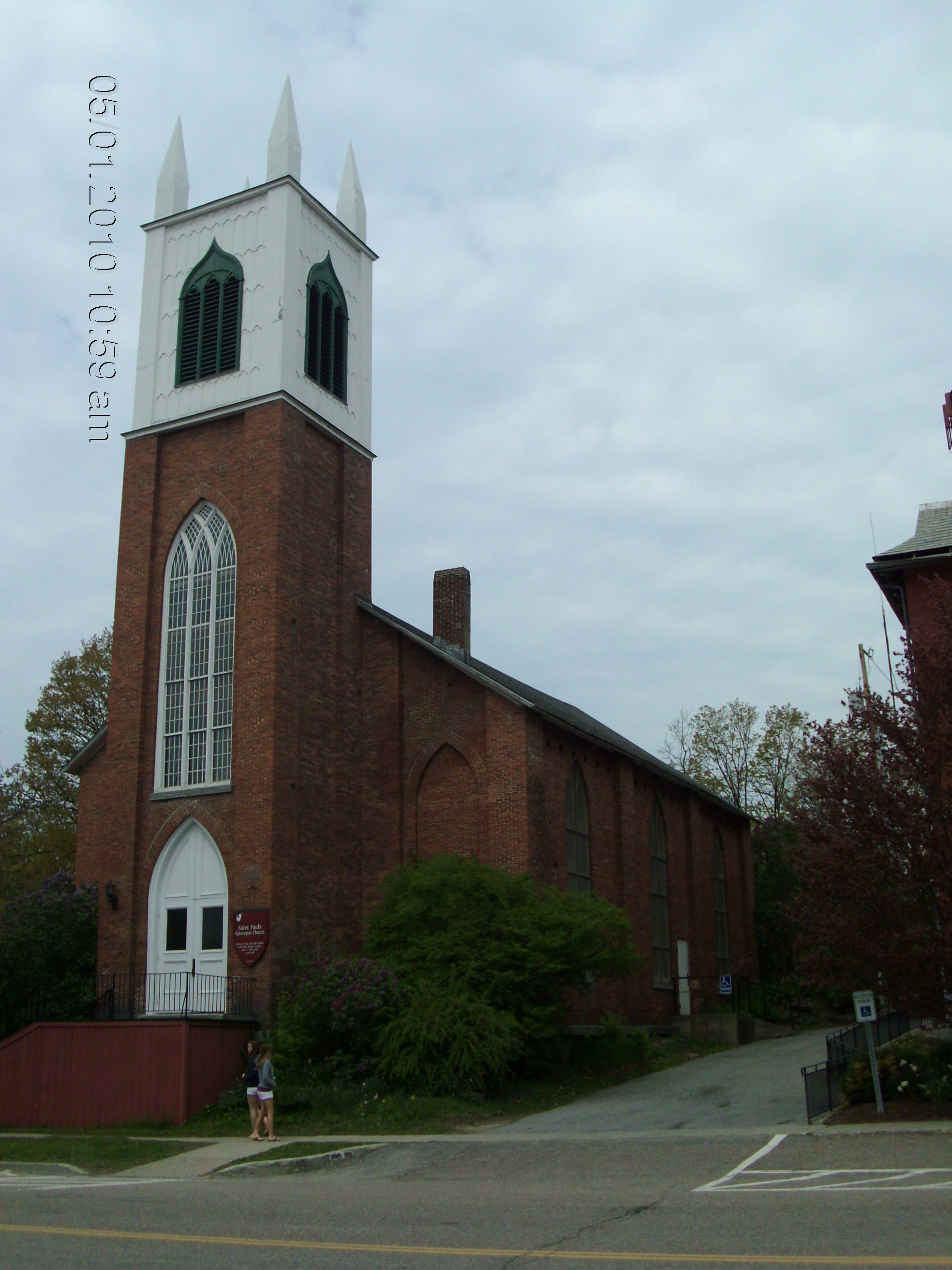 St. Paul's Episcopal Church on Main Street in Vergennes, Vermont